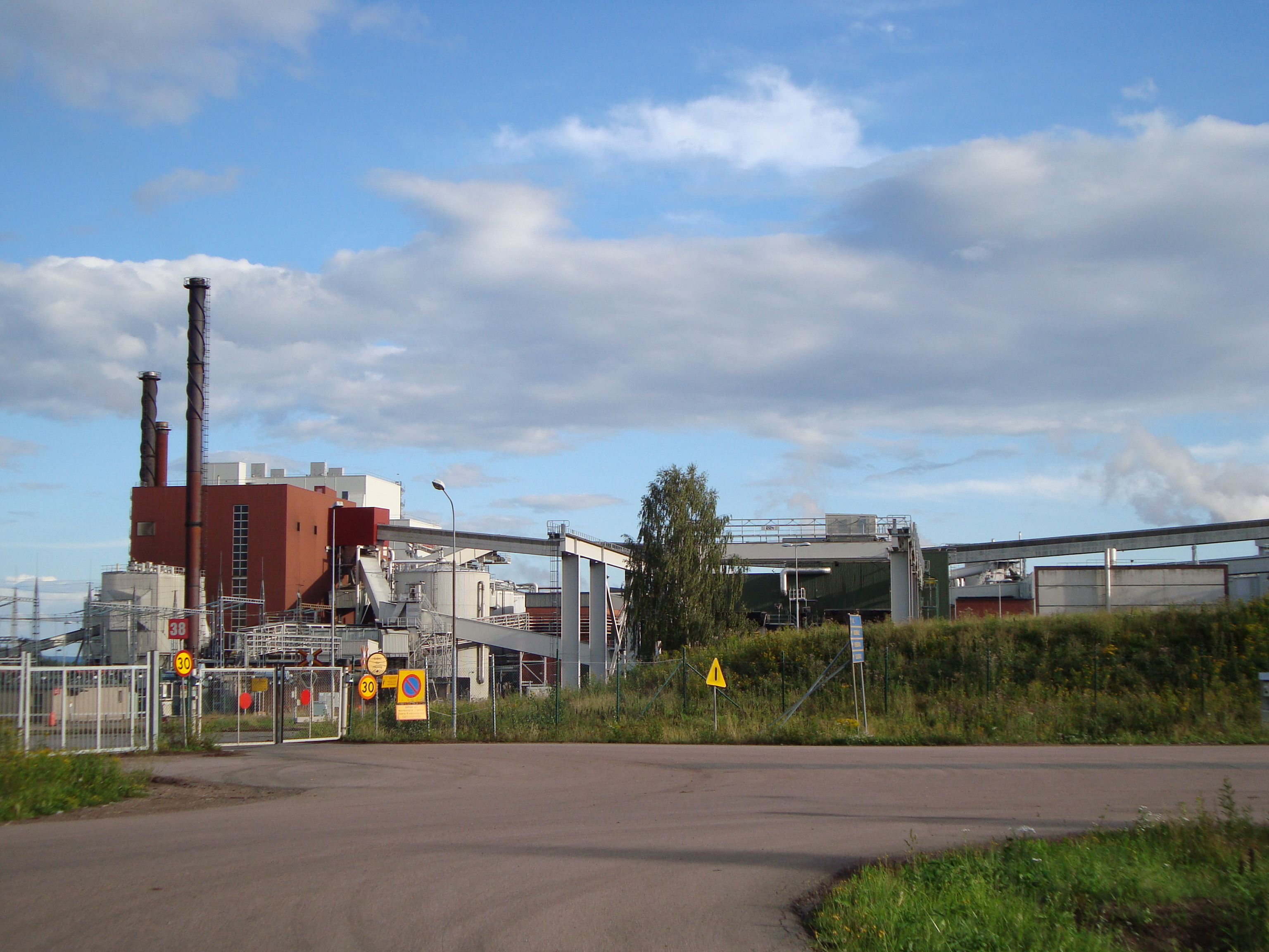 Paper mill of Kvarnsveden, Borlänge, Sweden